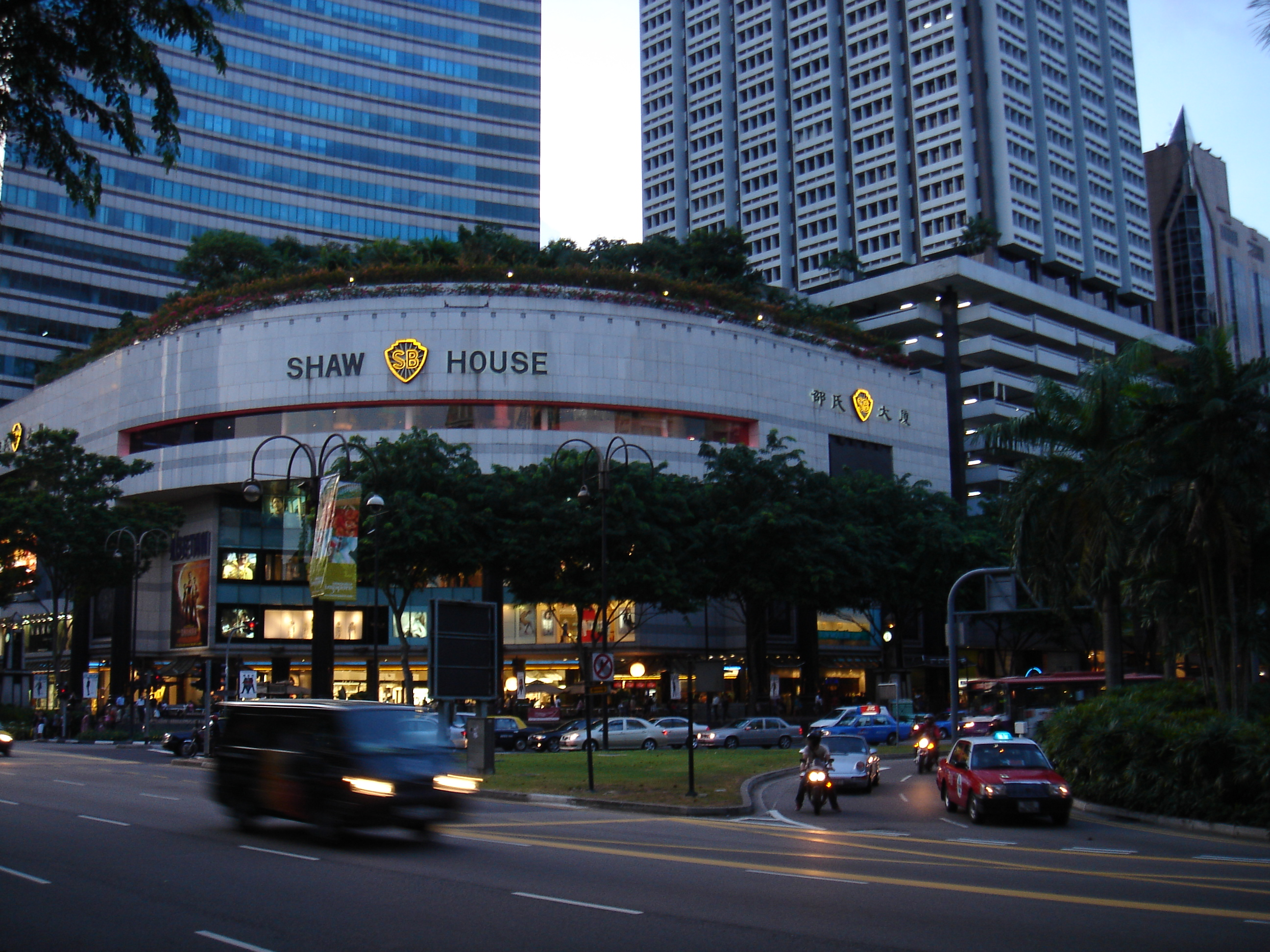 Shaw House, Orchard Road, also housing the Lido Complex.